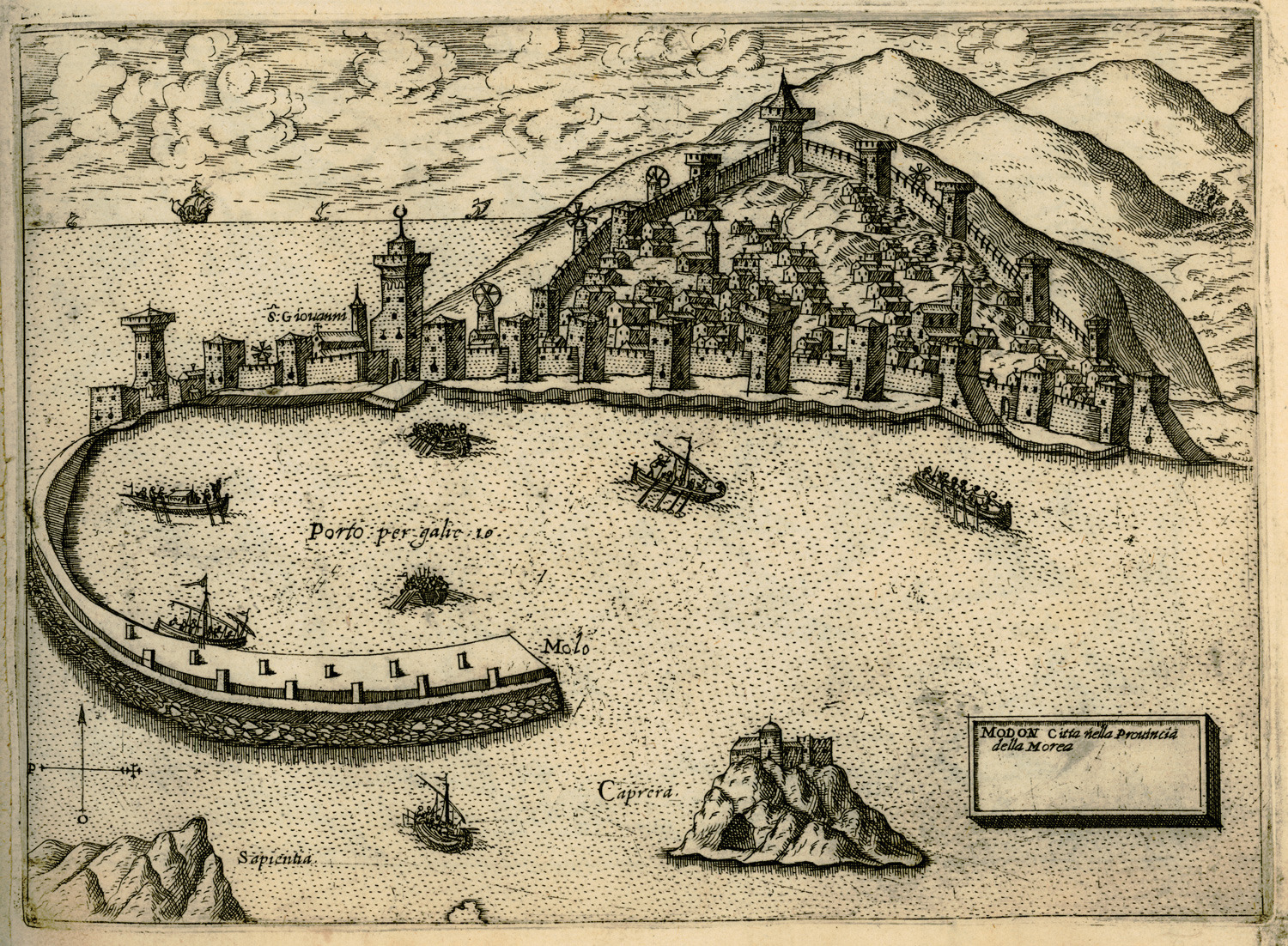 Giovanni Francesco Camocio. Isole famose porti, fortezze, e terre maritime sottoposte alla Ser.ma Sig.ria di Venetia, ad altri Principi Christiani, et al Sig.or Turco, Venice, alla libraria del segno di S.Marco (1574)